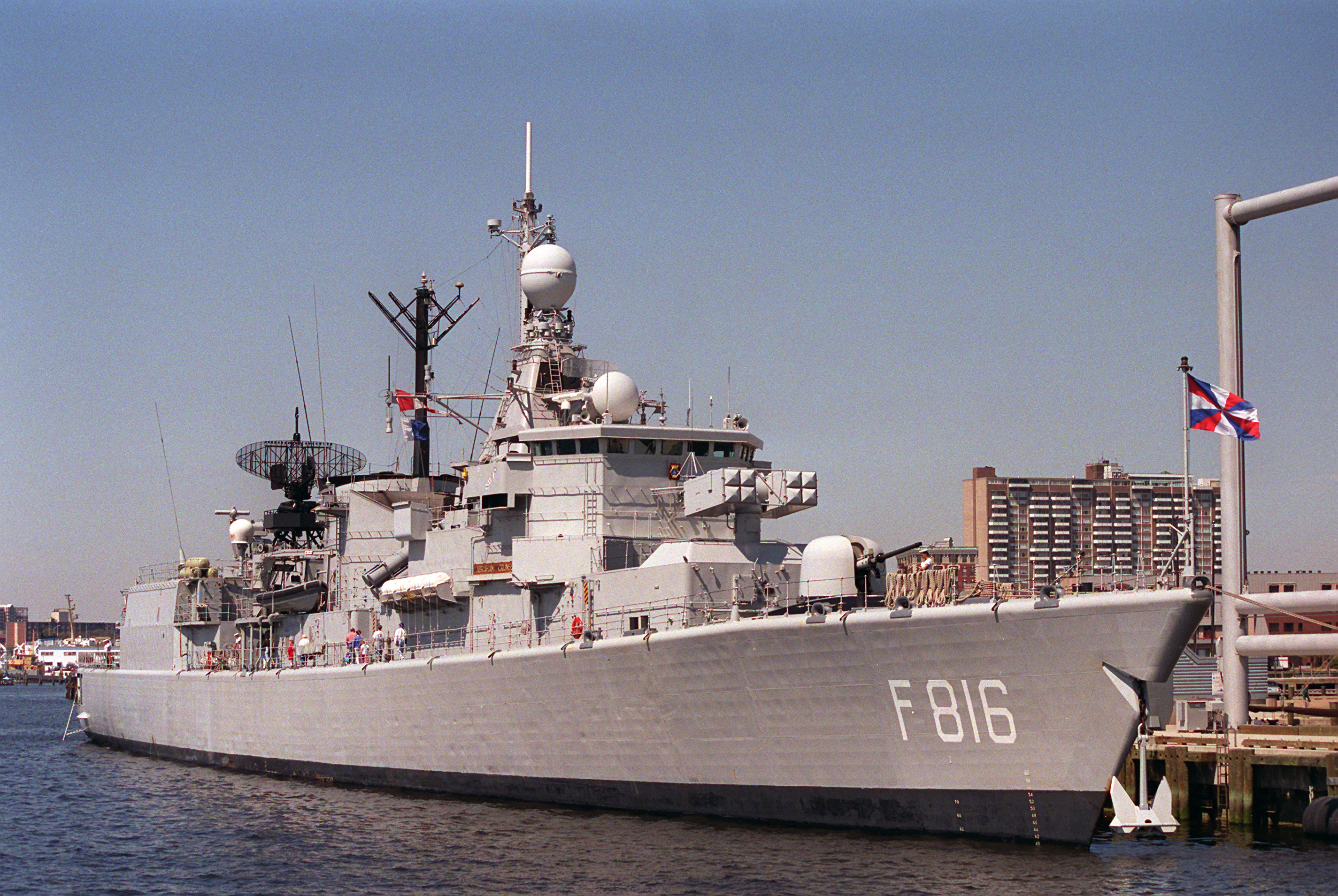 Starboard bow view of the Netherlands Navy Kortenaer class frigate MjHs ABRAHAM CRIJNSSEN (F-816) tied up at Norfolk's Nauticus Waterfront Pavilion for a port visit.